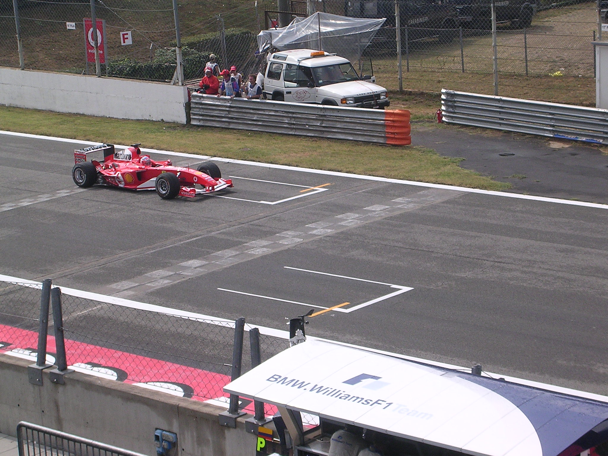 The Autrodomo Nazionale of Monza (italy) during a race in september 2004